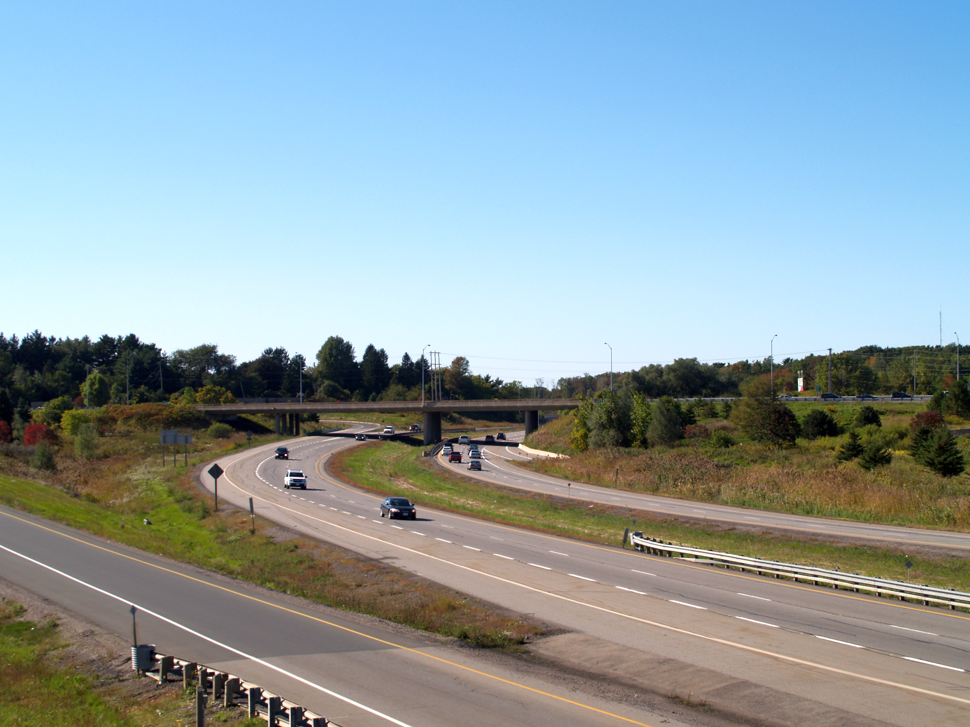 Ontario Highway 403 facing west from Hamilton Drive overpass, towards the Wilson Street (former Highway 2 interchange.